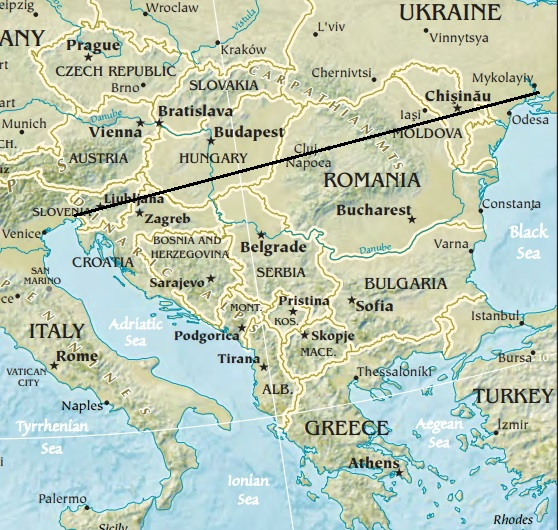 Map of the Balkan peninsula, showing the line stretching from the northernmost point of the Adriatic to the northernmost point of the Black Sea. Made from Europe map at The Central Intelligence Agency World Factbook, which is in the public domain.